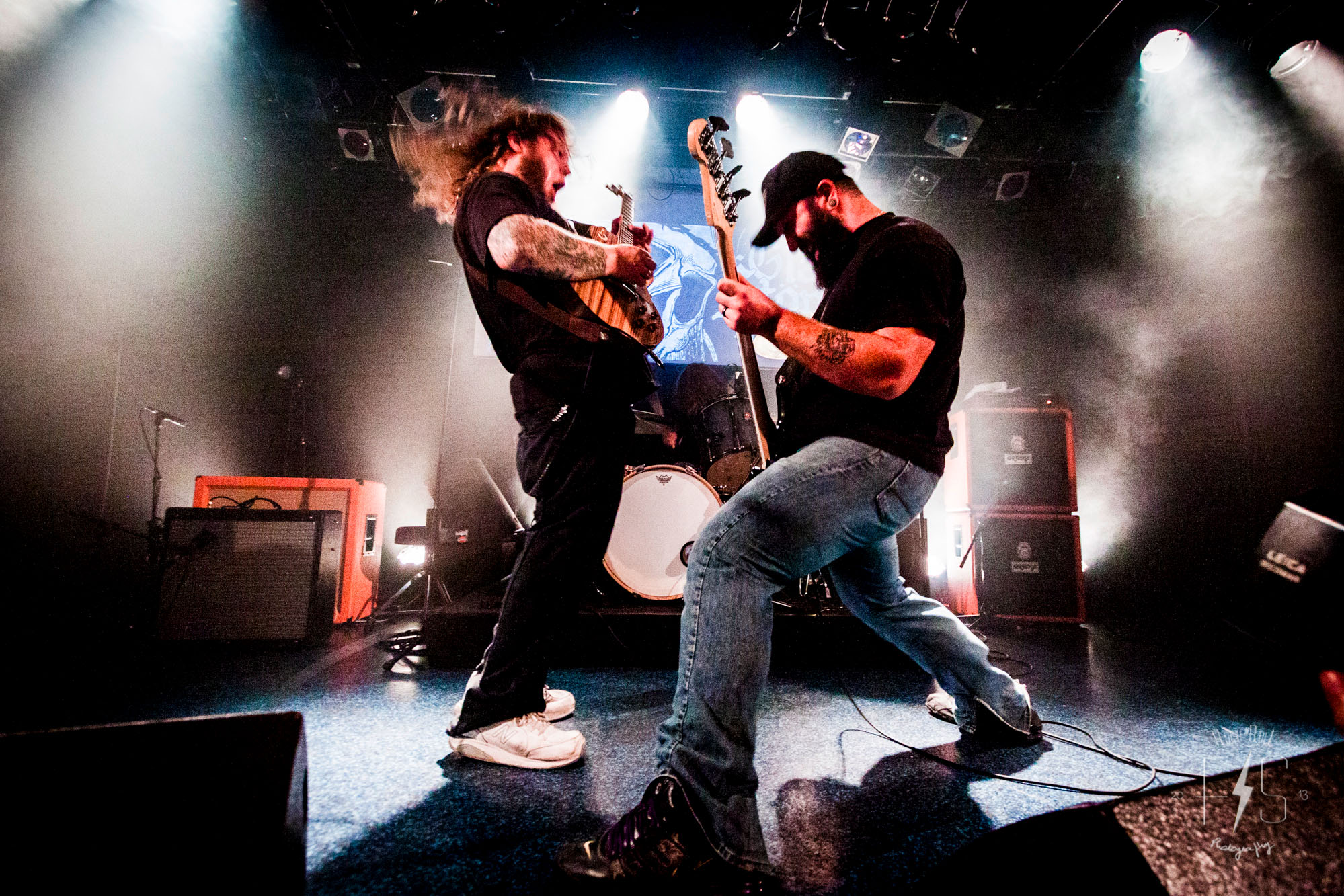 photo by: Fanny Storck